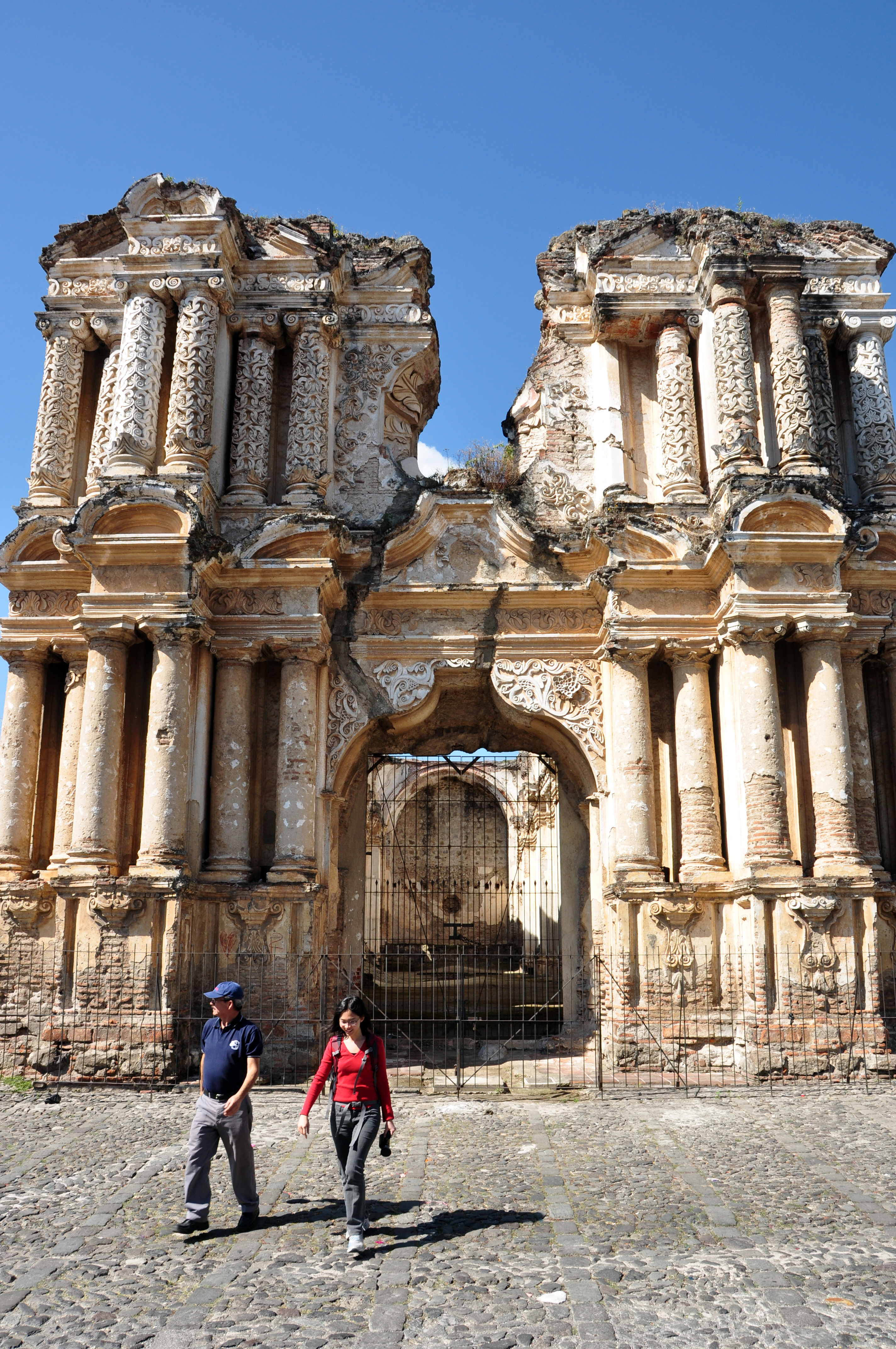 Ruins of the Church of Nuestra Señora del Carmen, Antigua Guatemala. In front two visitors walk on the street, built of rows of sett blocks with cobblestones between.